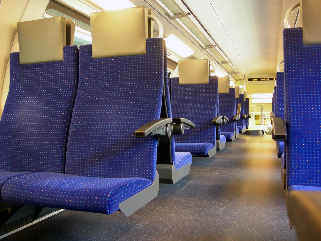 Inside view of a multiple unit train class RABe 514 (Siemens Desiro) of the Zurich rapid transit system